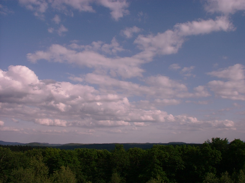 View from Mount Schindhübel in the Palatinate Forest